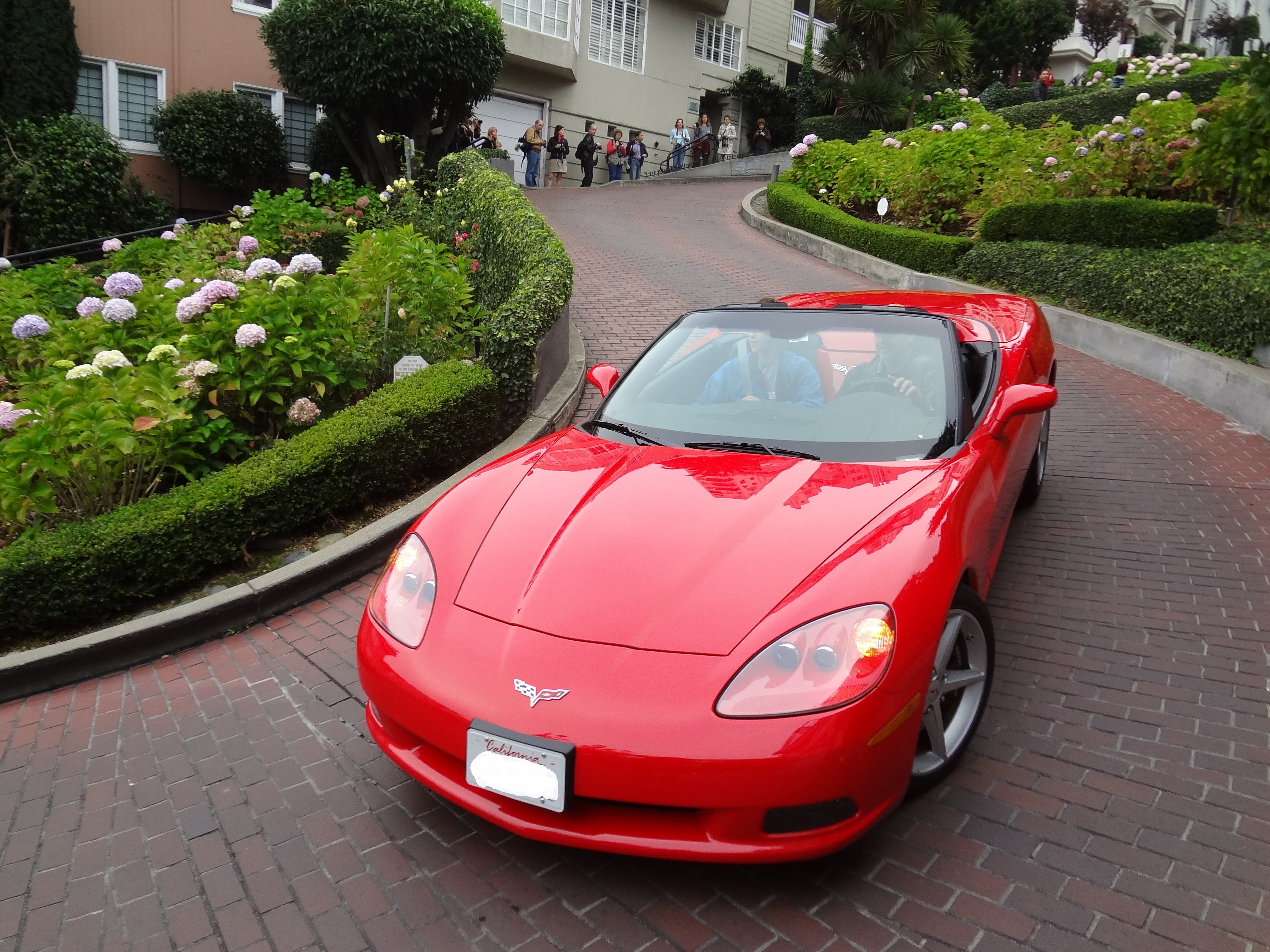 A brand new Chevrolet Corvette in Lombard str., CA, USA. You can visit our amazing travel blog at